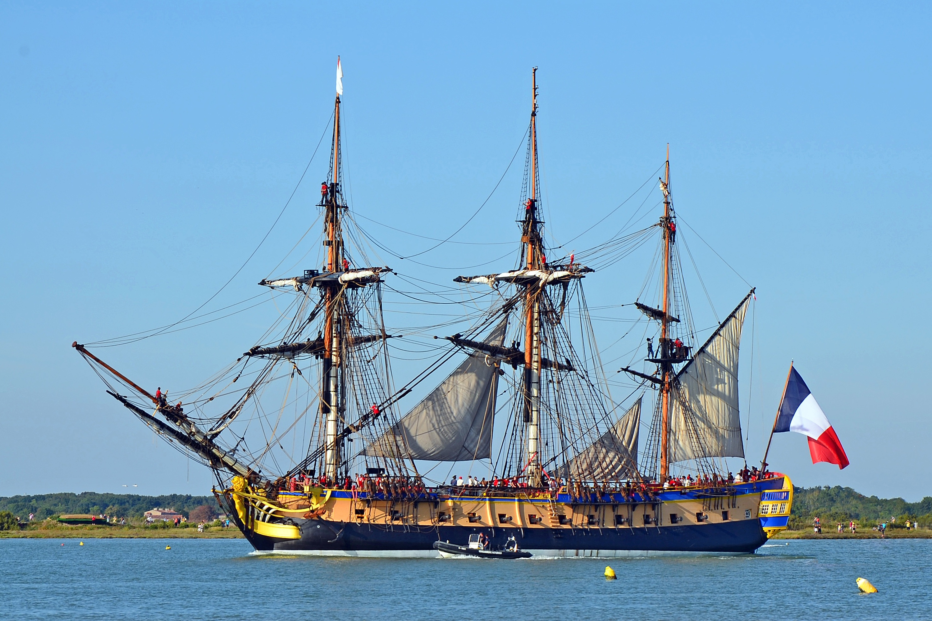 2014 September 17th, Hermione replica, built in Rochefort, comes off the Charente river, and reach open sea for the first time. Thousands of spectators attend this first departure.